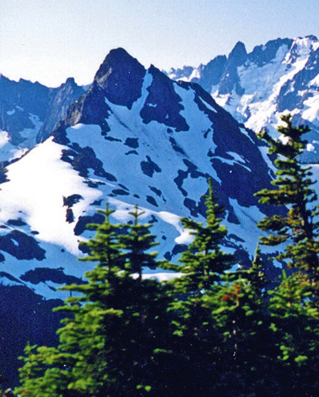 Goat Mountain seen from Winchester Mountain, North Cascades of Washington state